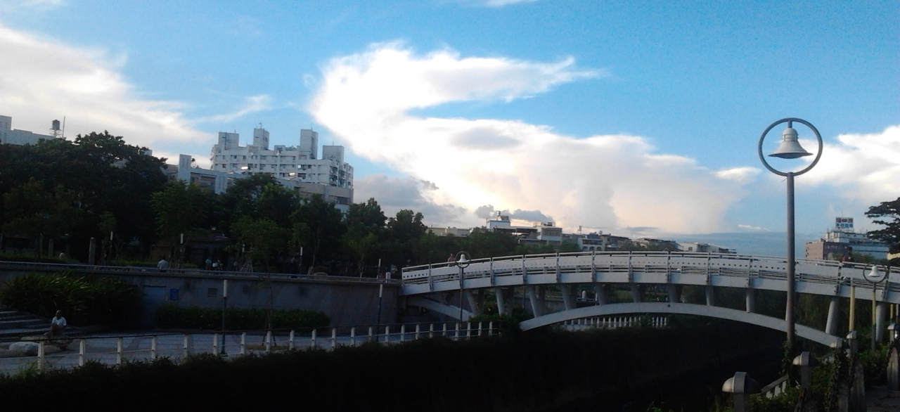 Heti Road walkway, Kaohsiung, Taiwan